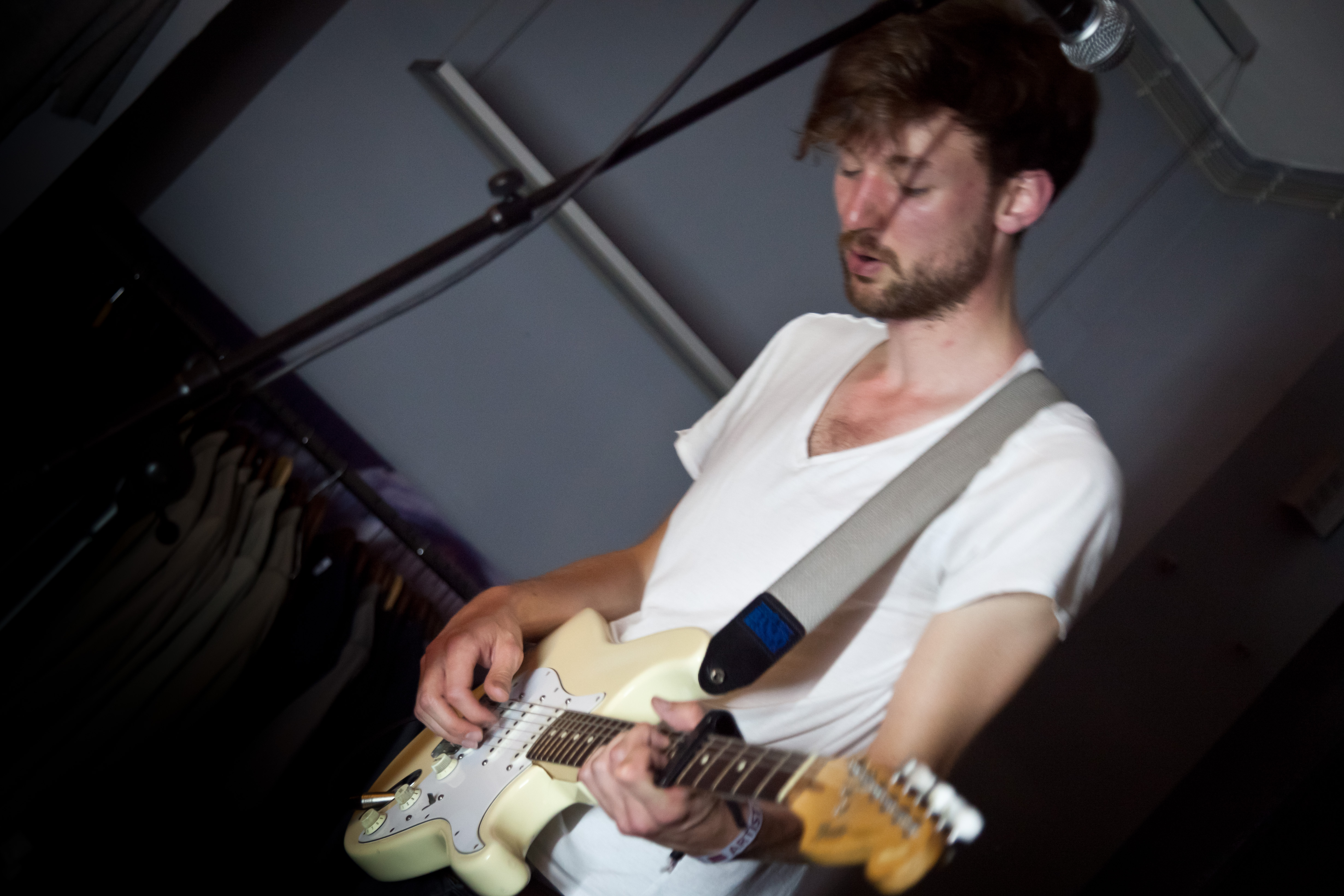 The german musician Daniel Schaub in concert.